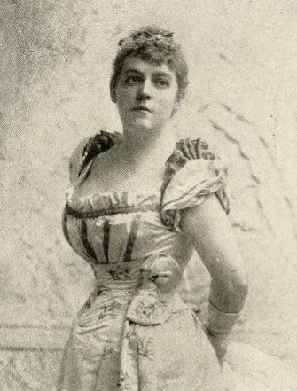 Photographic portrait of American entrepreneur and journalist Harriet Hubbard Ayer (1849-1903). From American Women: Fifteen Hundred Biographies with Over 1,400 Portraits, Frances E. Willard and Mary A. Livermore, editors. Mast, Crowell & Kirkpatrick, 1897 (revised edition from 1893), vol. 1, p. 40